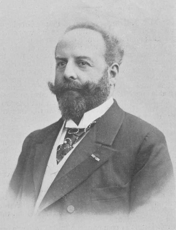 name E. A. M. v. d. KUN.. political affiliationPolitical Catholicism